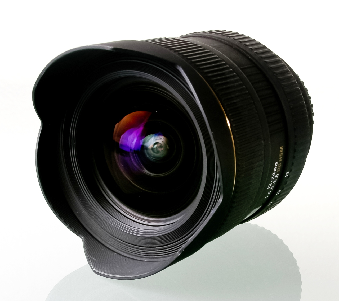 Sigma 12-24mm F4.5-5.6 EX DG Aspherical HSM lens.